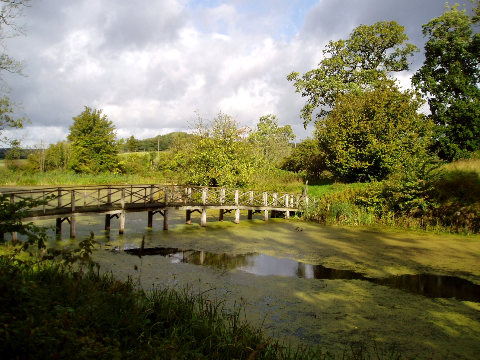 Ruins of Stjärneholm mansion, Scania, Sweden